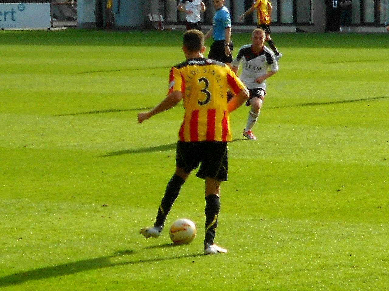 Aaron Taylor-Sinclair on the ball.